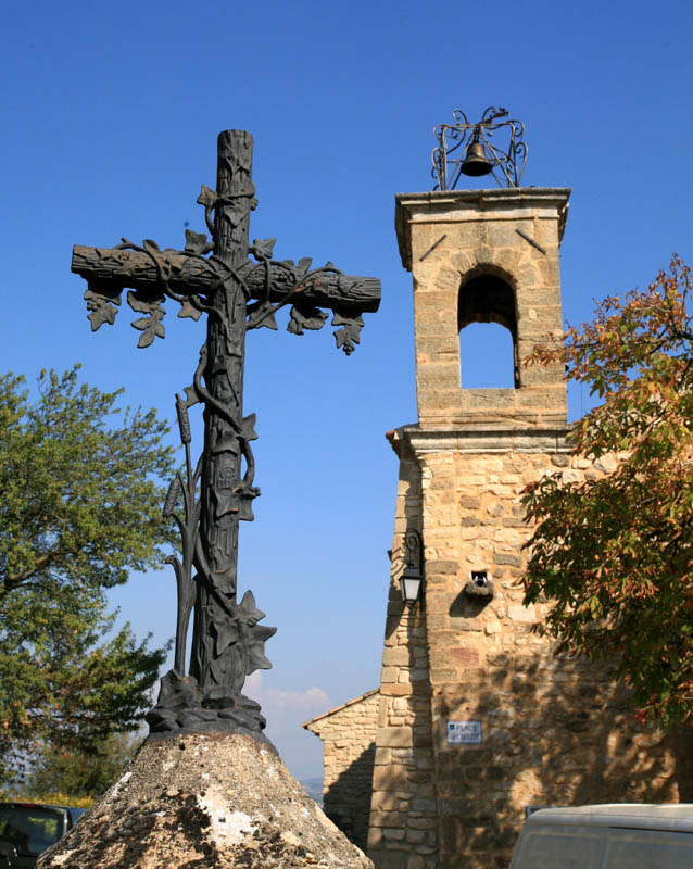 the village of Lagarde-Paréol, Vaucluse, France